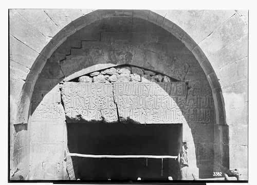 Bab al Nasr Alep